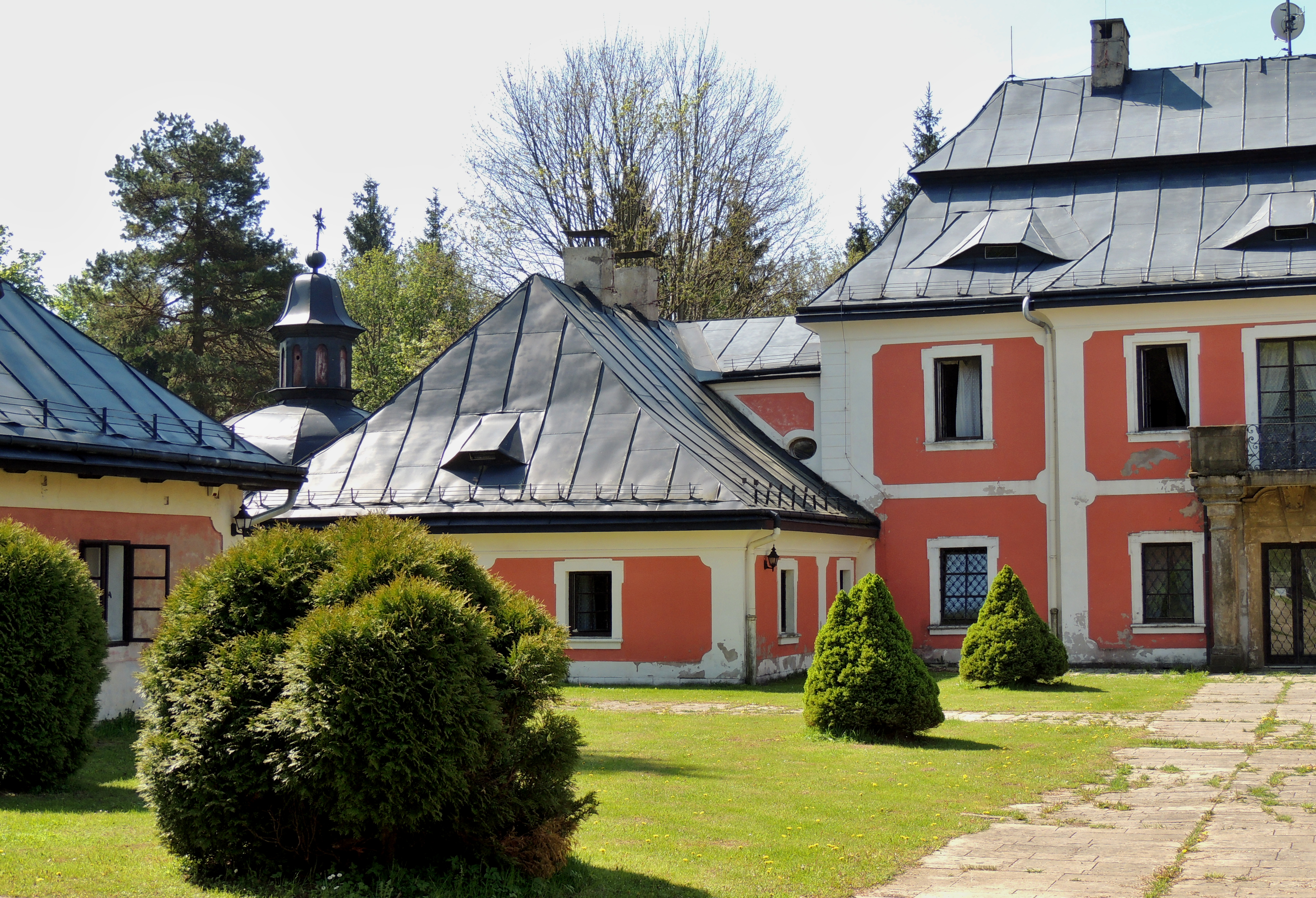 The southeast wing of the hunting castle Karlštejn, turret with a bell tower belongs of the chapel (originally the chapel of Saint Gilles). Karlštejn on the cadastral territory of Svratouch is originally a hunting castle built between 1770 and 1775 in the style of Central European Baroque, the architecture of the castle is sometimes presented as a rococo style. Since 1958 is the castle a cultural monument and has been included in the catalog of the National Monument Institute. The castle complex is situated in the settlement location of Karlštejn, part of the village Svratouch, from an administrative point of view in the district of Chrudim belonging to the Pardubice Region in the territory of the Czech Republic. Photo-location: Czechia, Pardubice Region, the village of "Svratouch", the hill with named "Karlštejn", azimuth 195°.